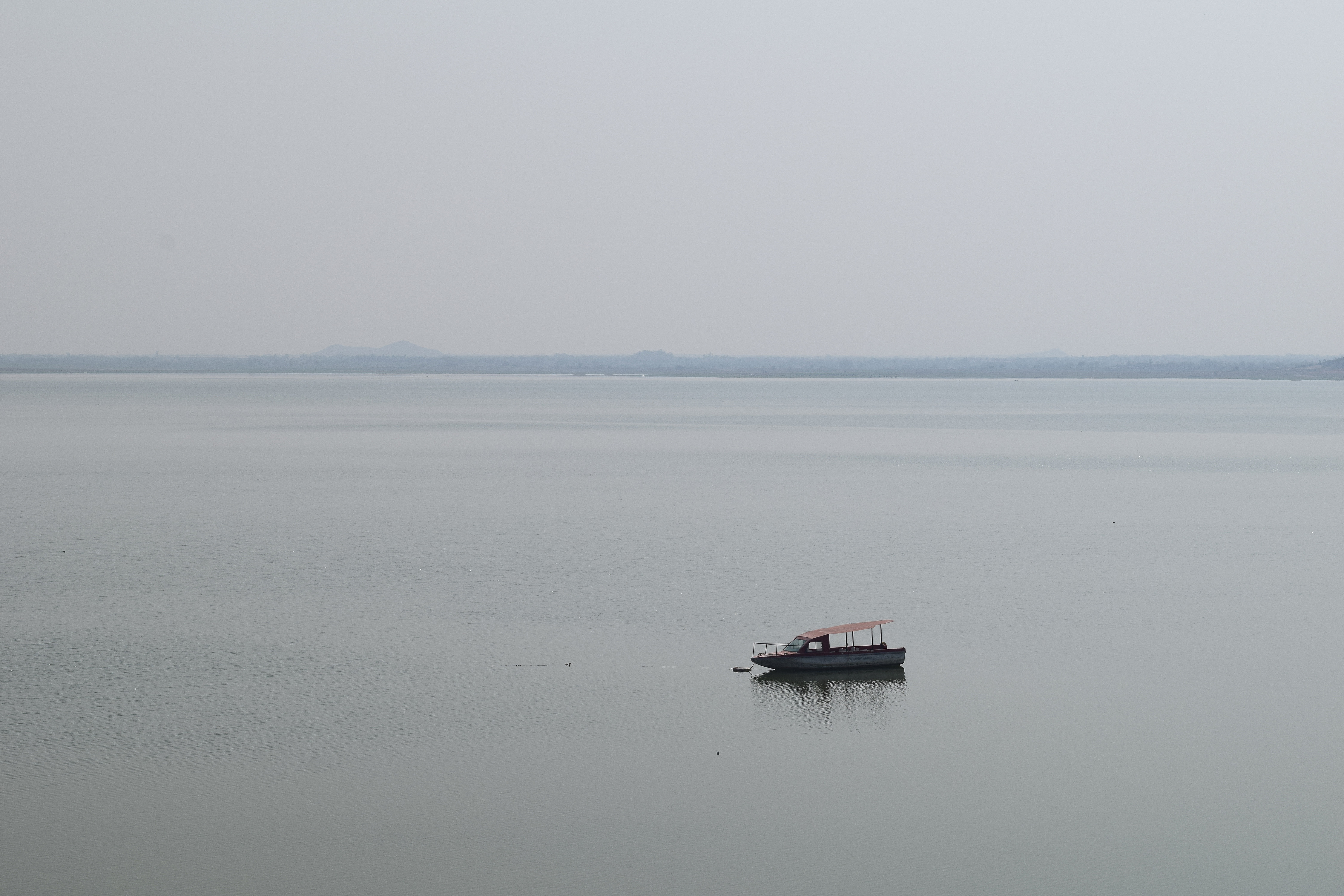 A motor boat on the waters of Manair Reservoir, Karimnagar, India